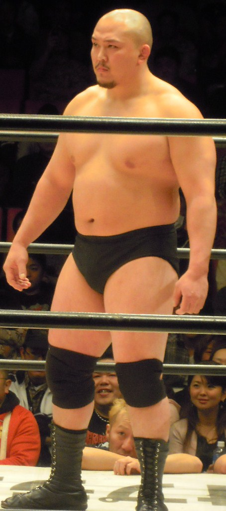 Japanese professional wrestler,Yuji Okabayashi. Jan 2 2011 BJW Korakuen Hall.